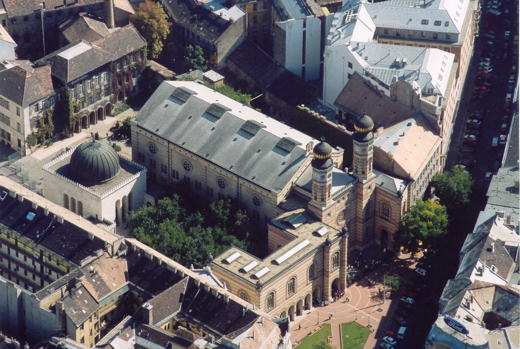 Synagogue - Budapest - Hungary - Europe